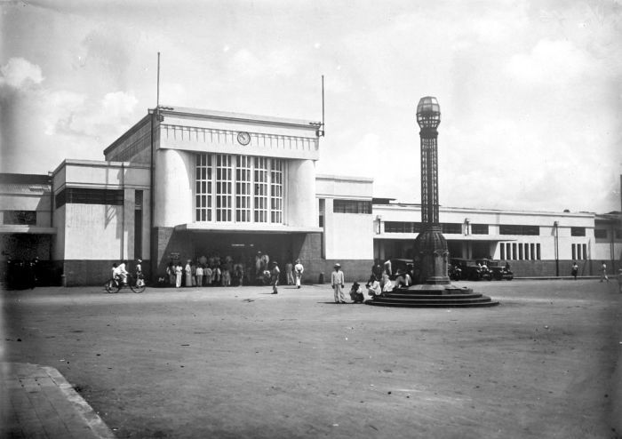 Railwaystation in Bandung, West-Java